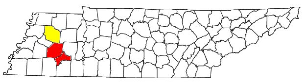 Locator map of the Jackson-Humboldt Combined Statistical Area in the southwestern part of the U.S. state of Tennessee. The two components of the CSA are colored separately: Jackson Metropolitan Statistical Area: red Humboldt Micropolitan Statistical Area: yellow